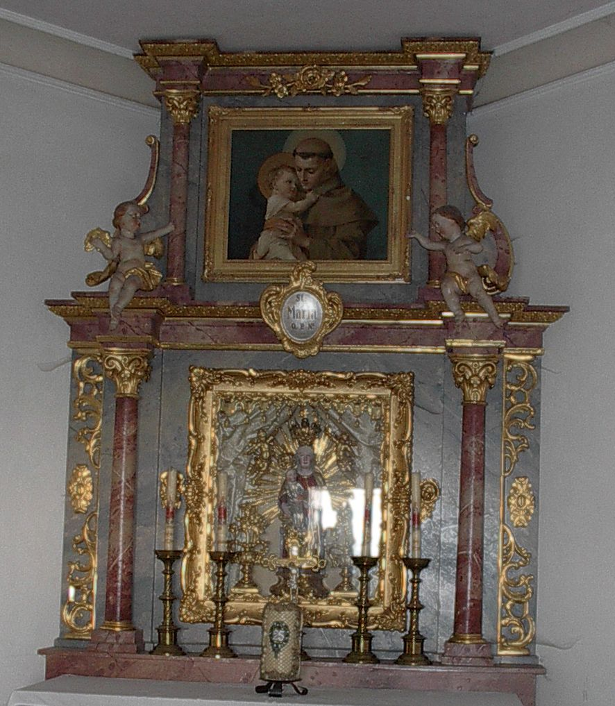 Der Altar der Antoniuskapelle mit St. Anton und der Marienstatue